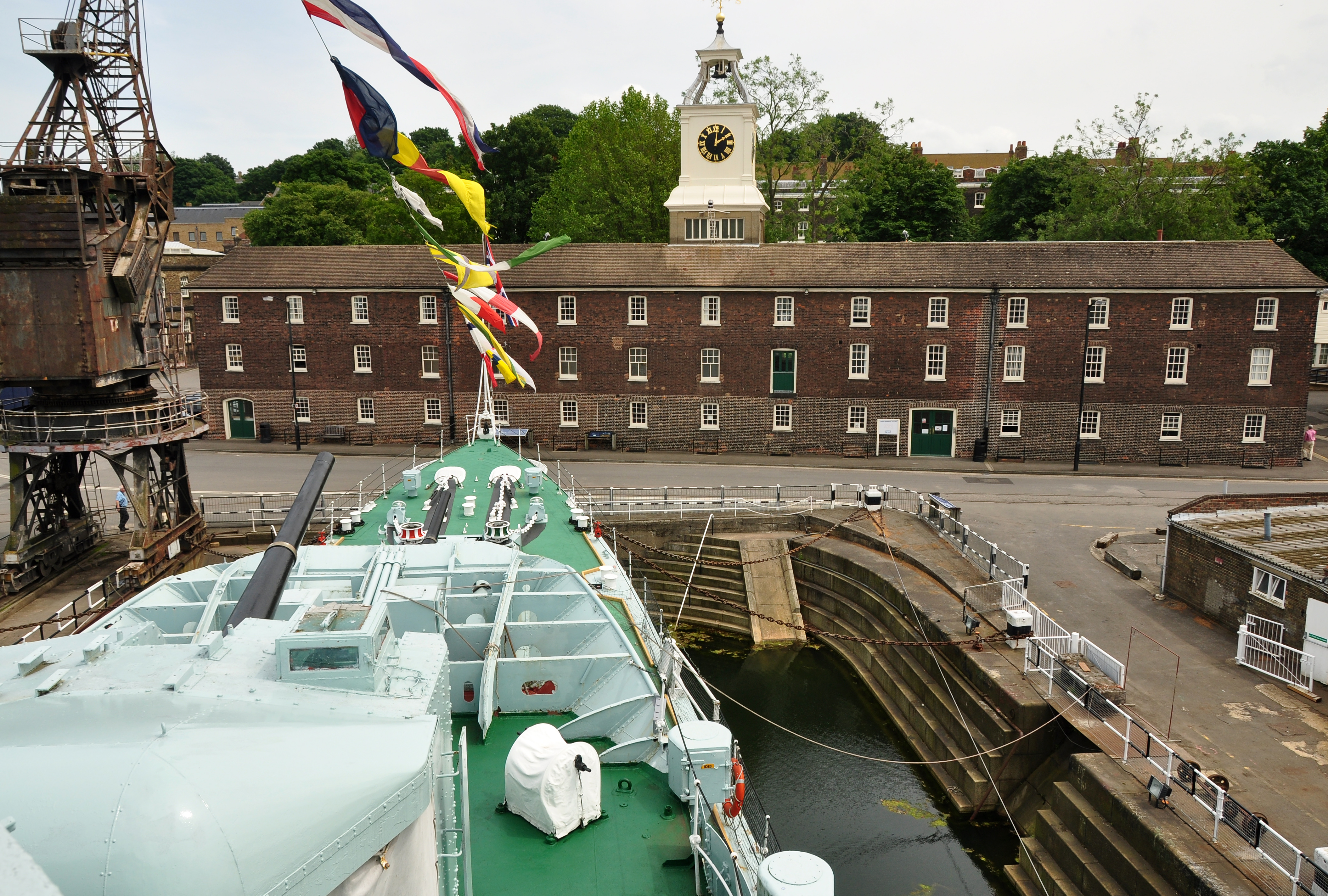 The Clock Tower Building in Chatham Dockyard, Kent, seen from the bridge of HMS Cavalier.